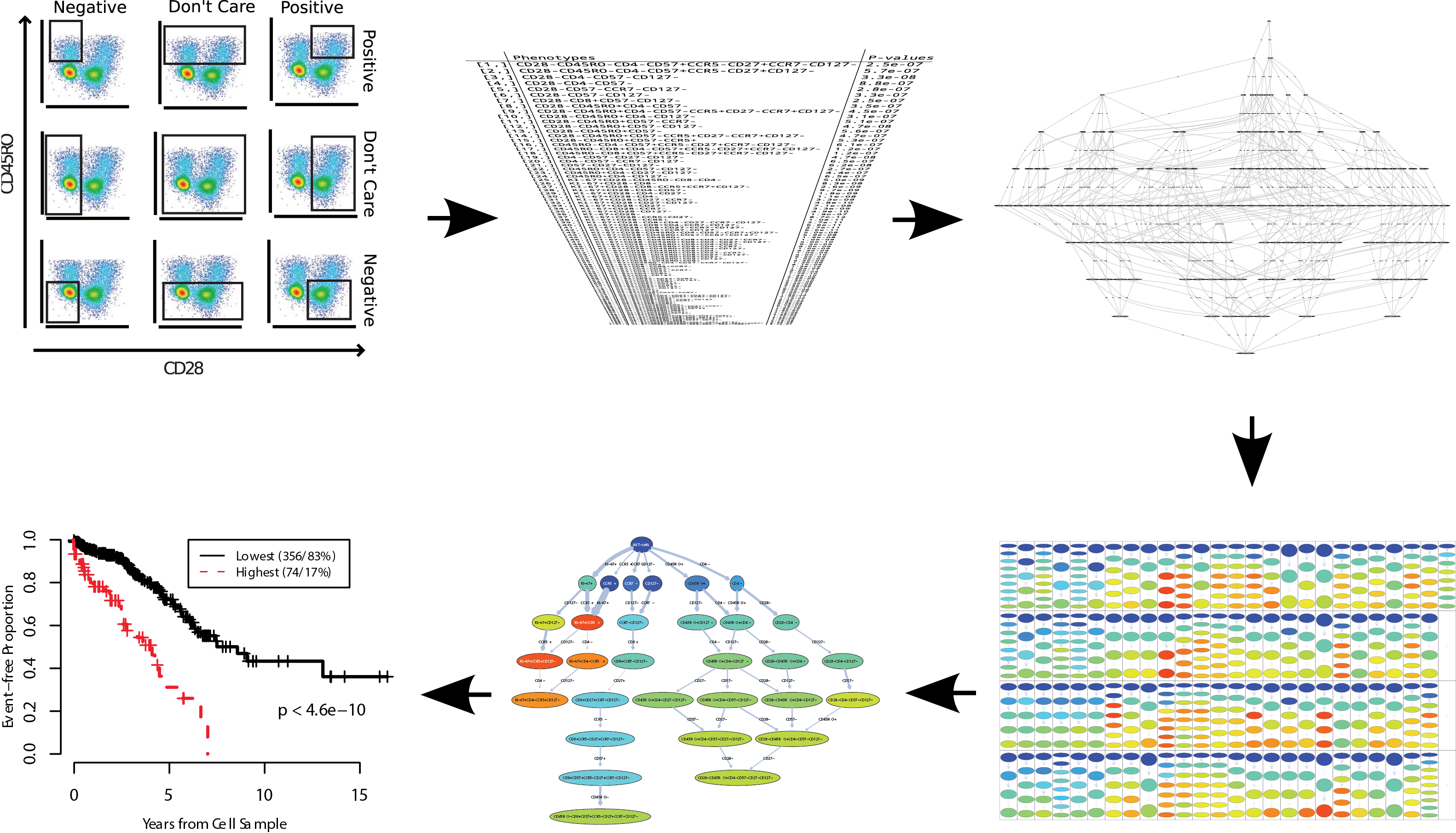 Overview of a pipeline for detecting correlates of protection against HIV in flow cytometry data.